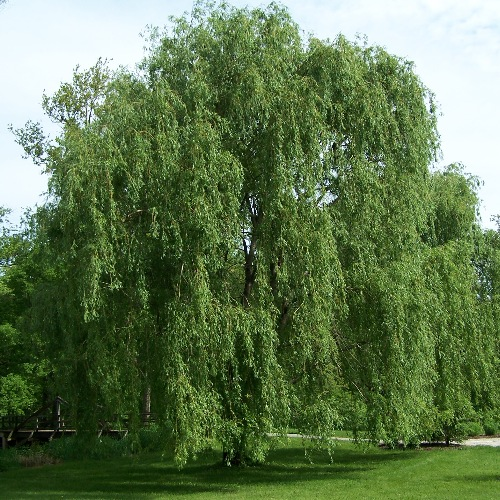 Golden weeping willow Salix × sepulcralis (syn. S. alba 'Tristis'), Morton Arboretum acc. 58-95*1